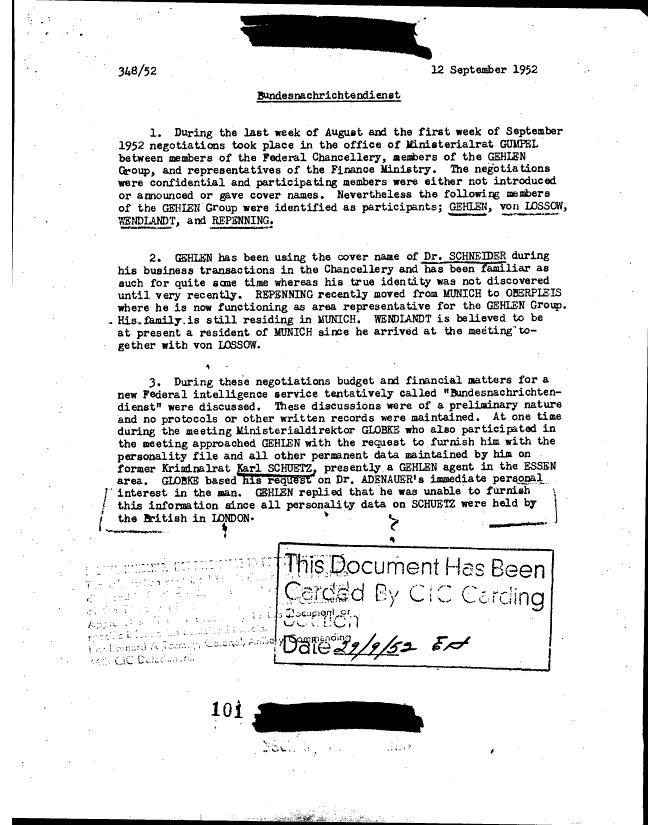 CIA document on early talks to create the "Bundesnachrichtendienst"